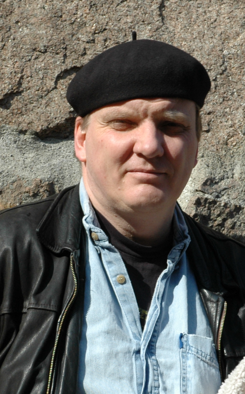 Civilian beret. Modern type, less wide than older types.